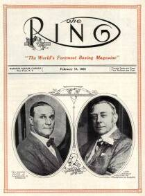 First issue (1922) of The Ring (magazine) Used in The Ring (magazine)